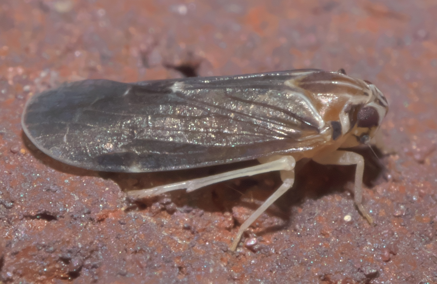 Synecdoche impunctata, Family: Achilid Planthoppers, Size: 5.2 mm, ID Confidence: 87